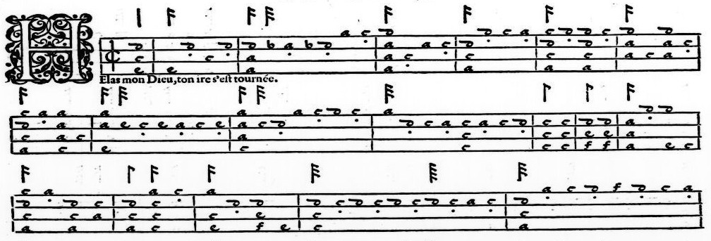 Beginning of a psalm in Gregor Brayssing's Quart livre de tablature de guitare (Paris : 1553).